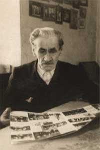 Spiridon Putin - Vladimir Putin's grandfather